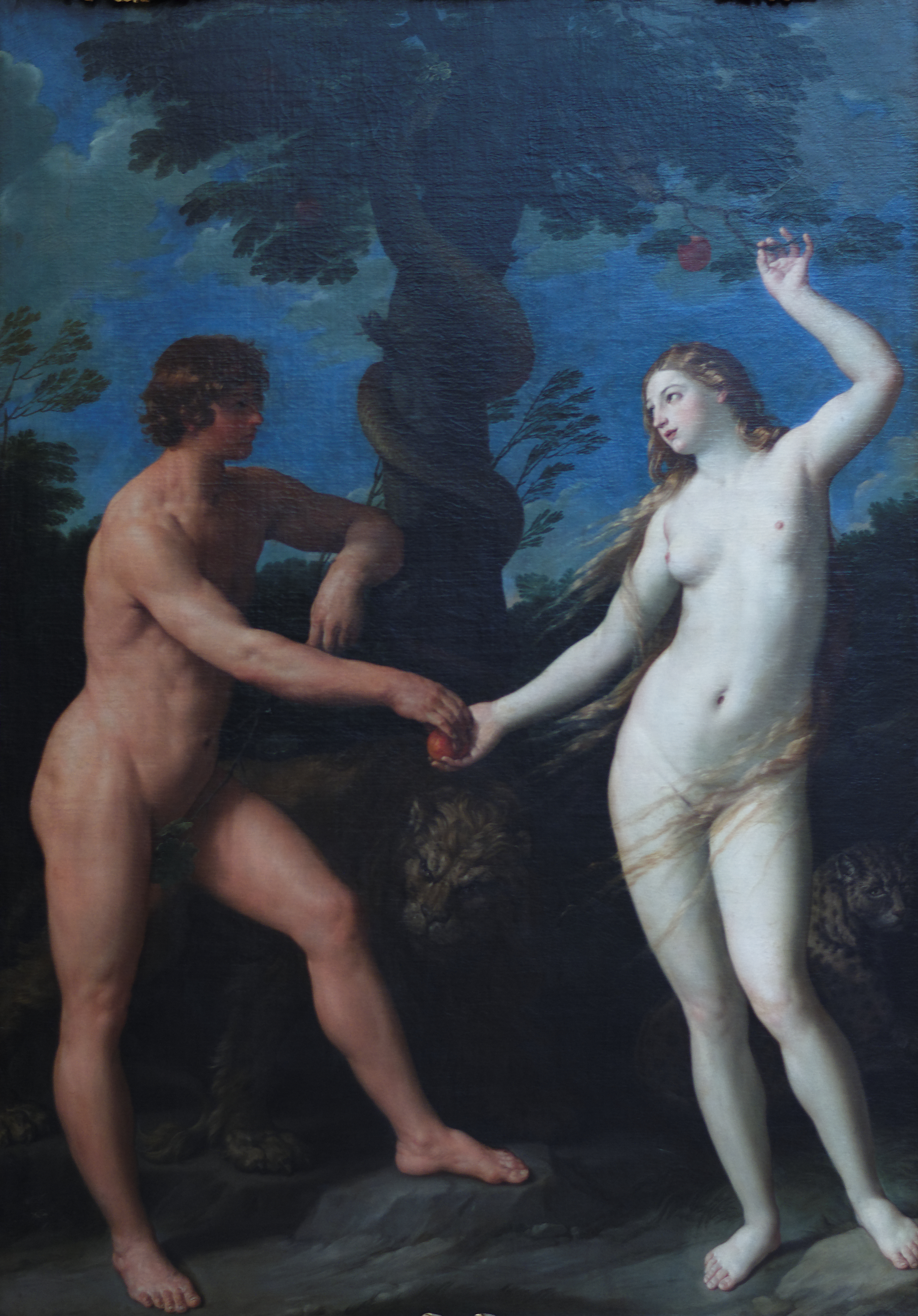 Adam and Eve